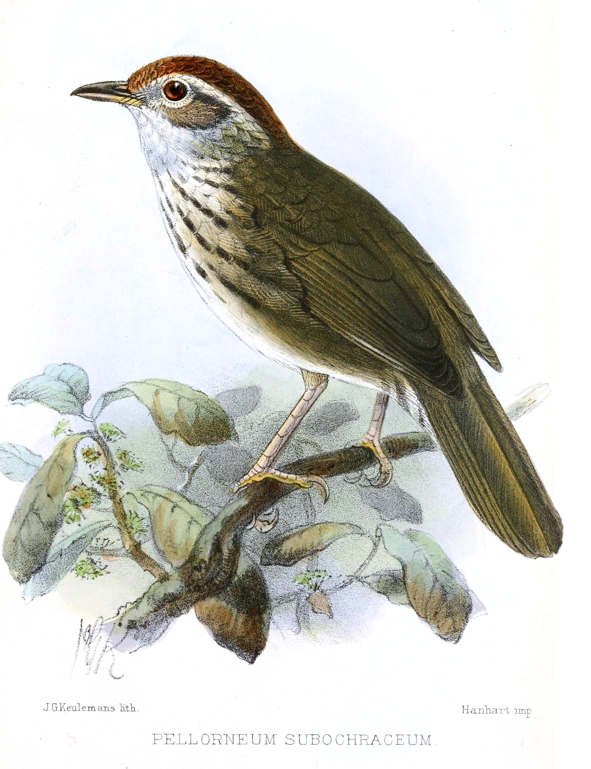 « Pellorneum subochraceum » = Pellorneum ruficeps subochraceum (Subspecies of Puff-throated Babbler)